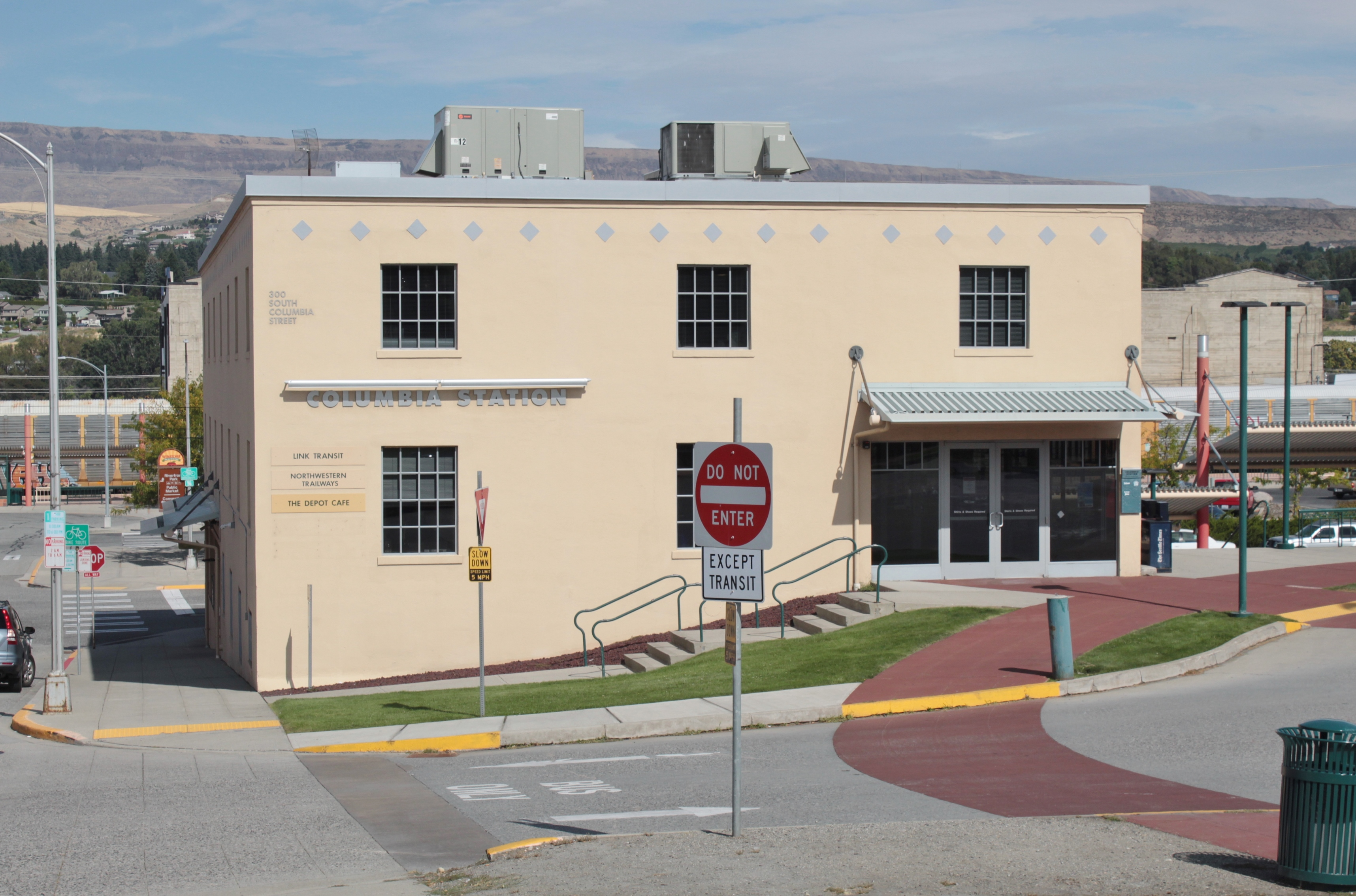 The main building at Columbia Station, a bus and train station in Wenatchee, Washington.